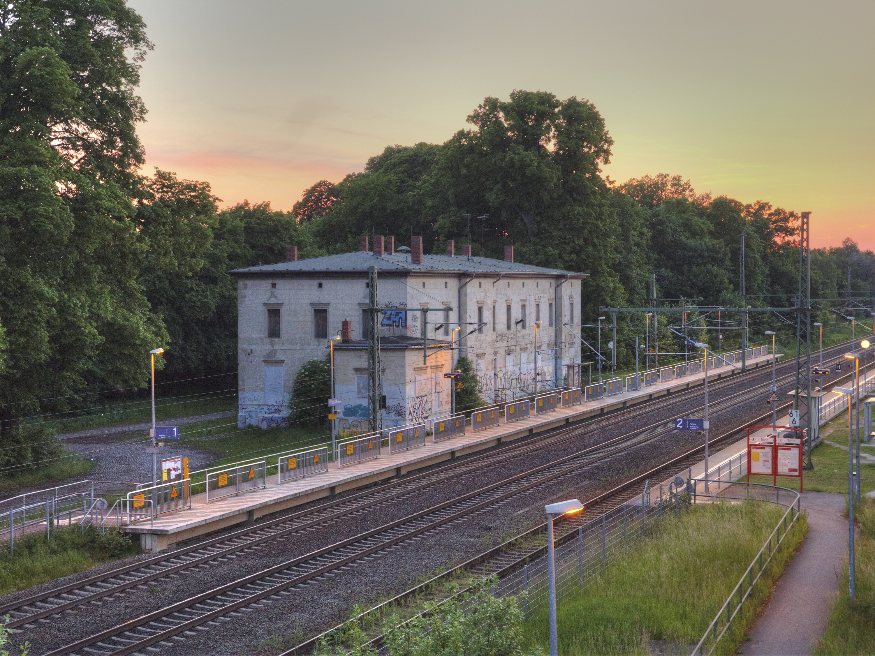 Friesack (Mark), Brandenburg, Germany: train station